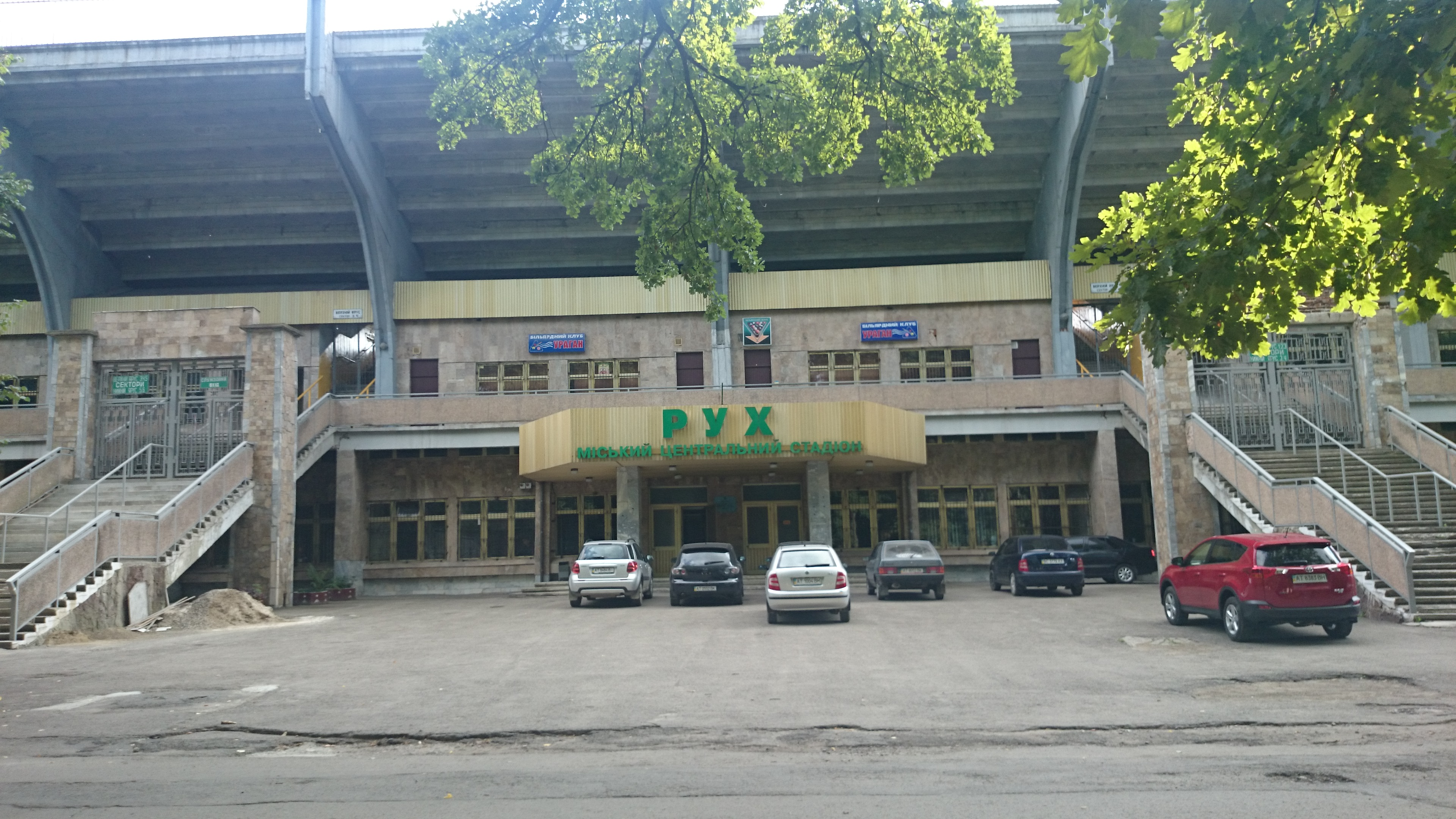 MCS Rukh Main Tribune